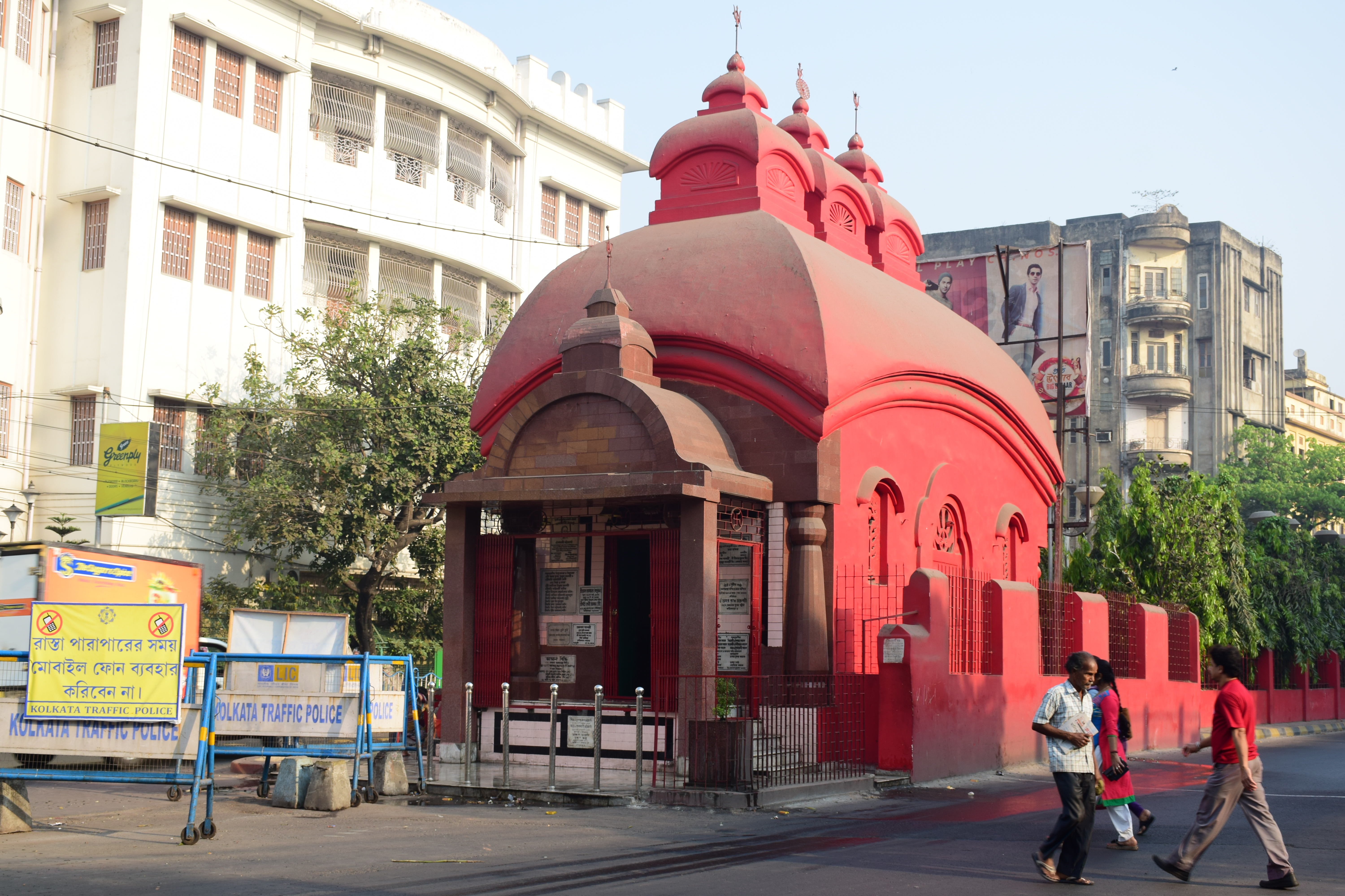 THE PICTURE REPRESENTS THE FRONTAL VIEW OF LAL MANDIR LOCATED ON JATINDRA MOHAN AVENUE LANE OPPOSITE TO JAIPURIA COLLEGE